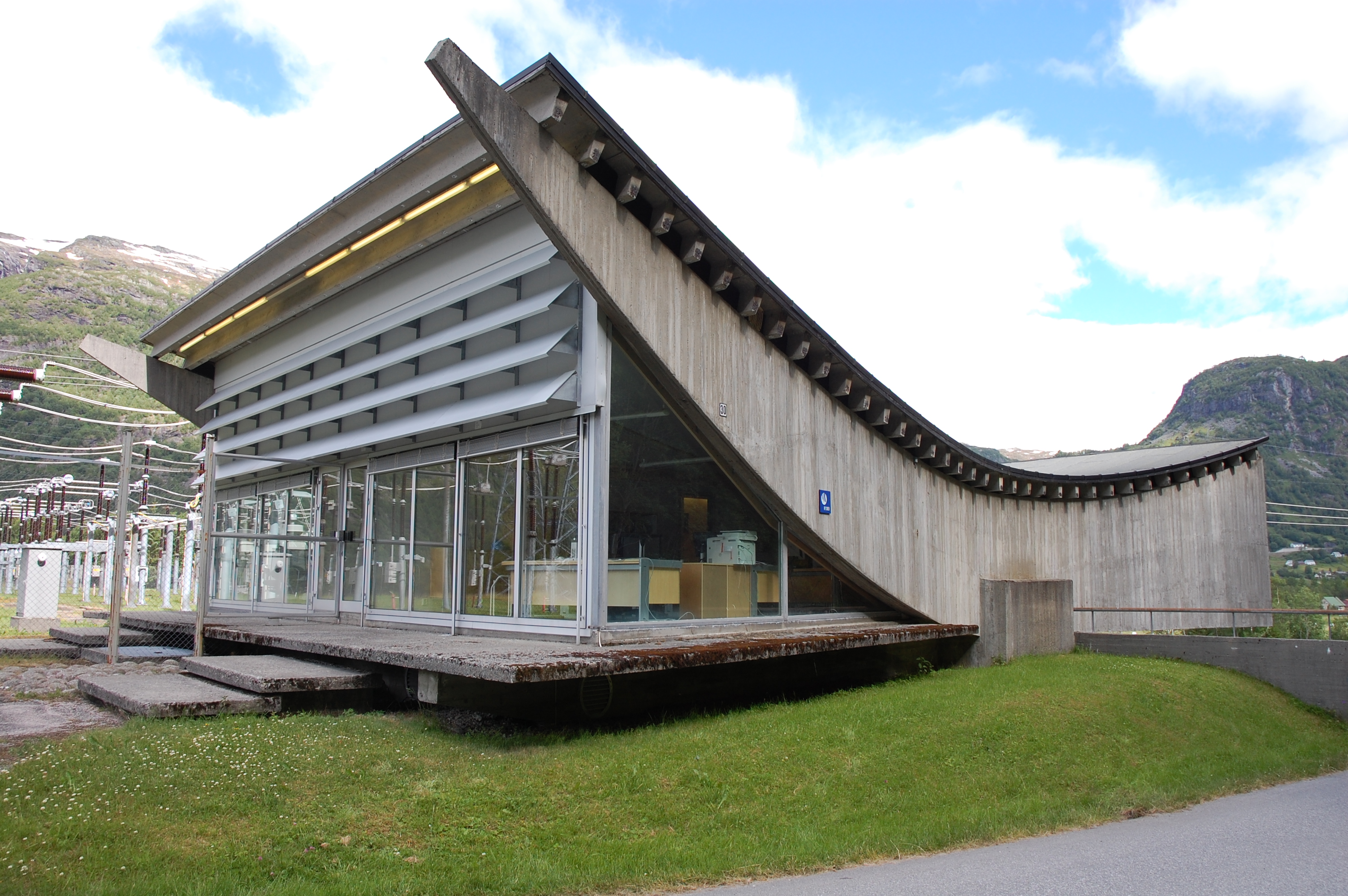 Røldal Power Station, Office and workshop building, Odlandsvegen 30, Røldal, Hordaland, Norway. Architect Geir Grung, 1965.